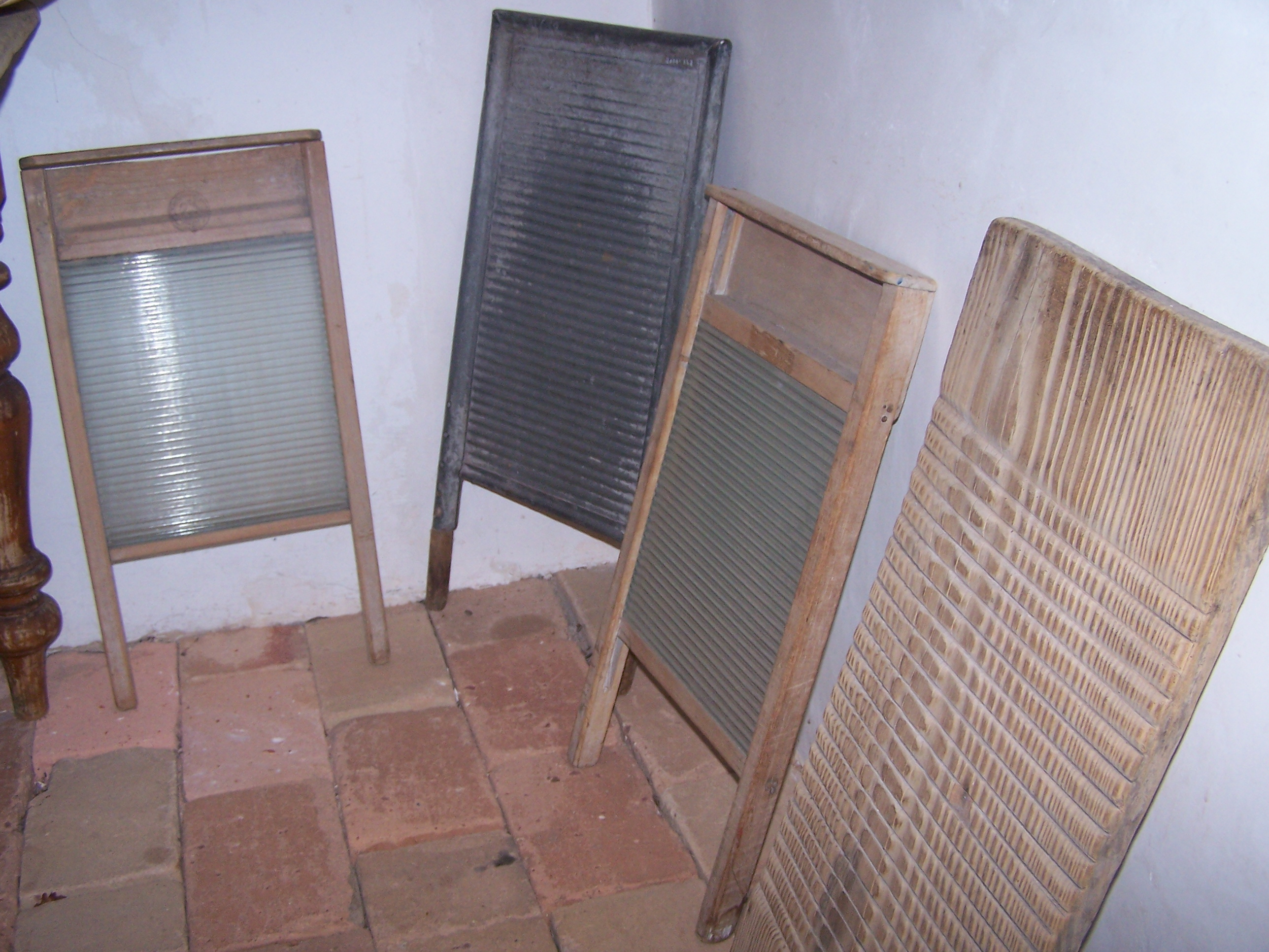 Tranby House Washing boards